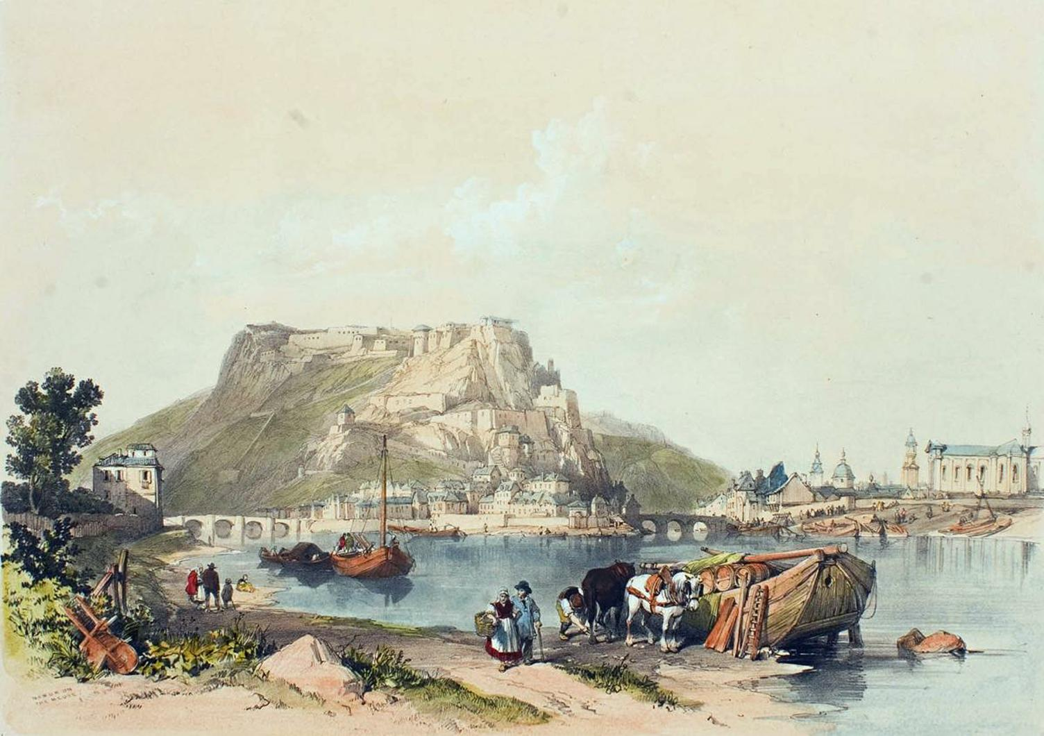 Namur, Junction of the Meuse and Sambre